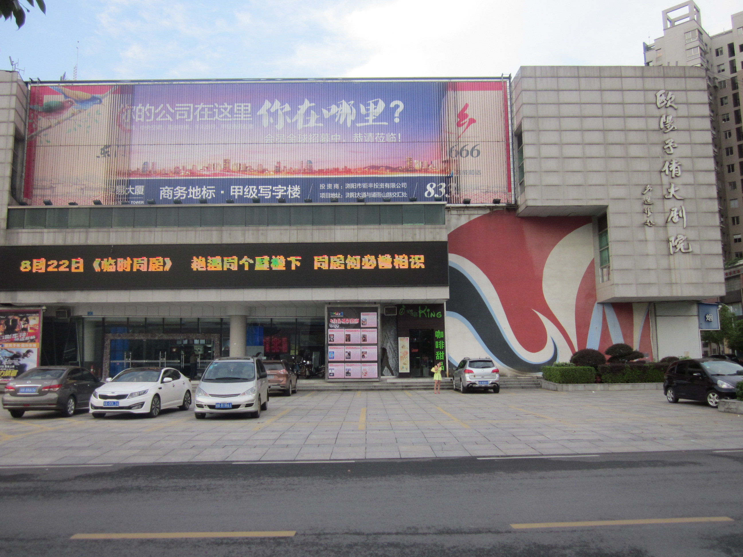 Ouyang Yuqian Grand Theater (Chinese: 欧阳予倩大剧院), is an opera house in Liuyang city, Hunan province, People's Republic of China.